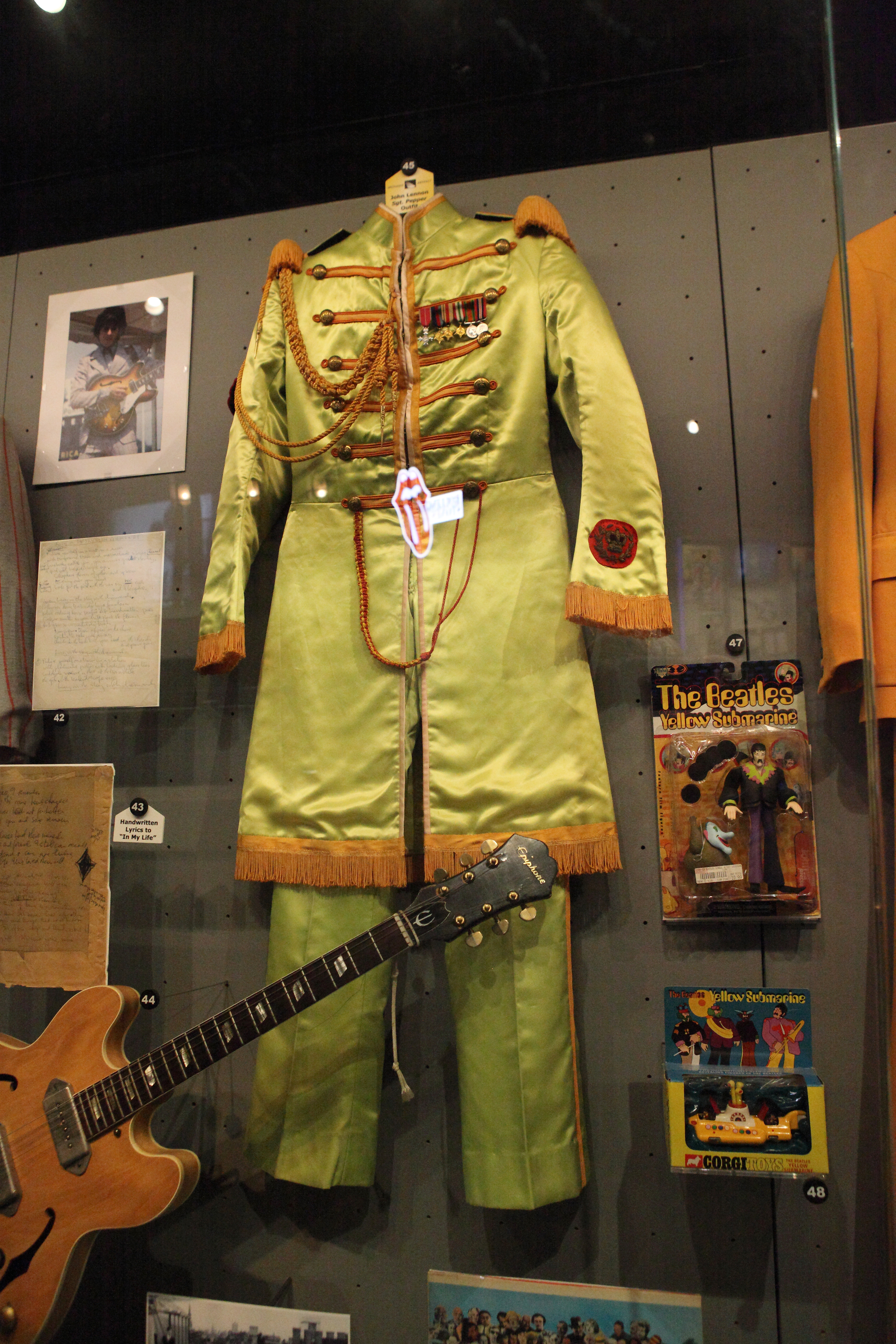 John Lennon's outfit from Sgt. Pepper at the Rock and Roll Hall of Fame in Cleveland, Ohio.